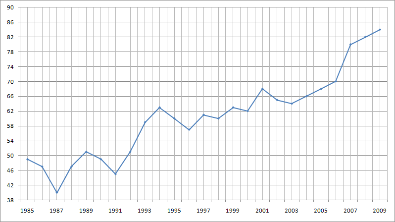 Vágur's population (1985-2009). It's made in Microsoft Excel 2007 program.